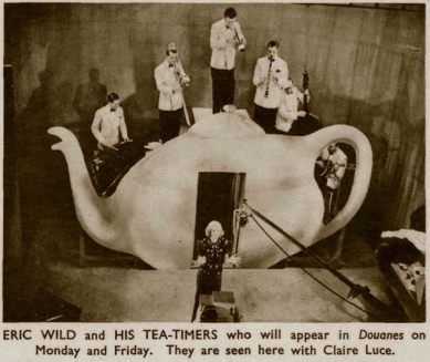 Eric wild playing the trumpet in his band, the Tea-Timers, performing on BBC.